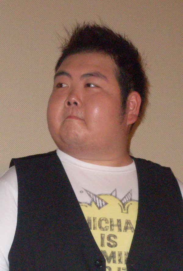 Actor Qian Zhijun of the film The University Days of a Dog, meeting audience members - Taken in the Jinling Worker's Theater (金陵工人影院) in Nanjing